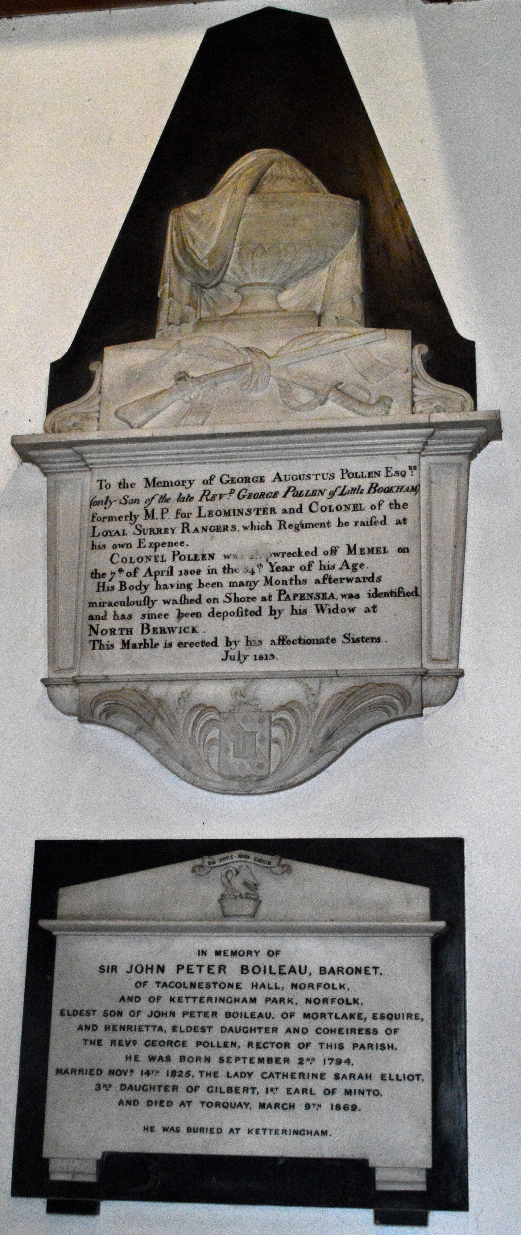 All Saints Church, Little Bookham, Memorial to George Augustus Pollen and Sir John Peter Boileau, 1st Baronet (2 September 1794 – 9 March 1869)